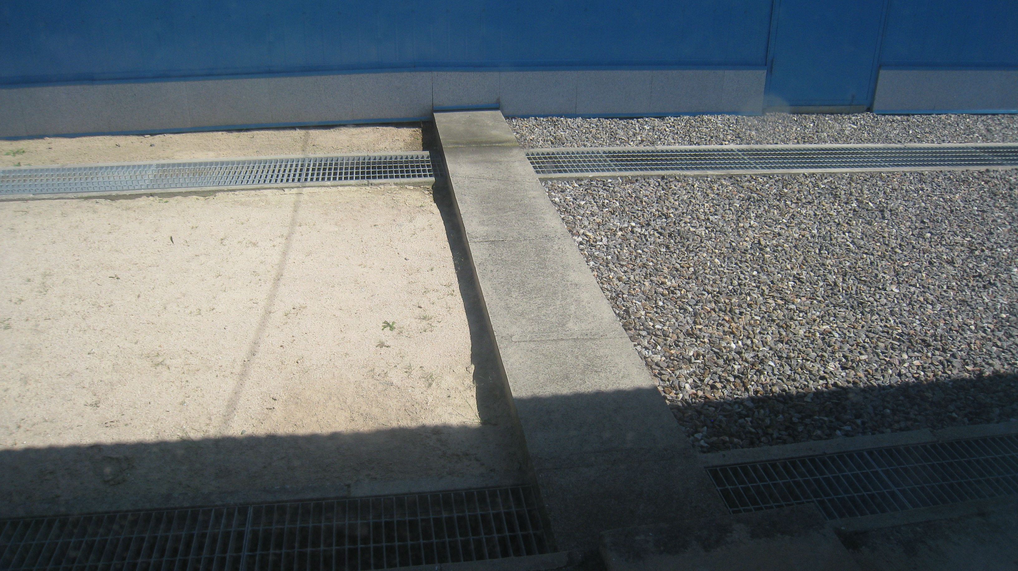 One of the concrete slabs that marks the border between North Korea and South Korea in the Joint Security Area in the Korean Demilitarized Zone